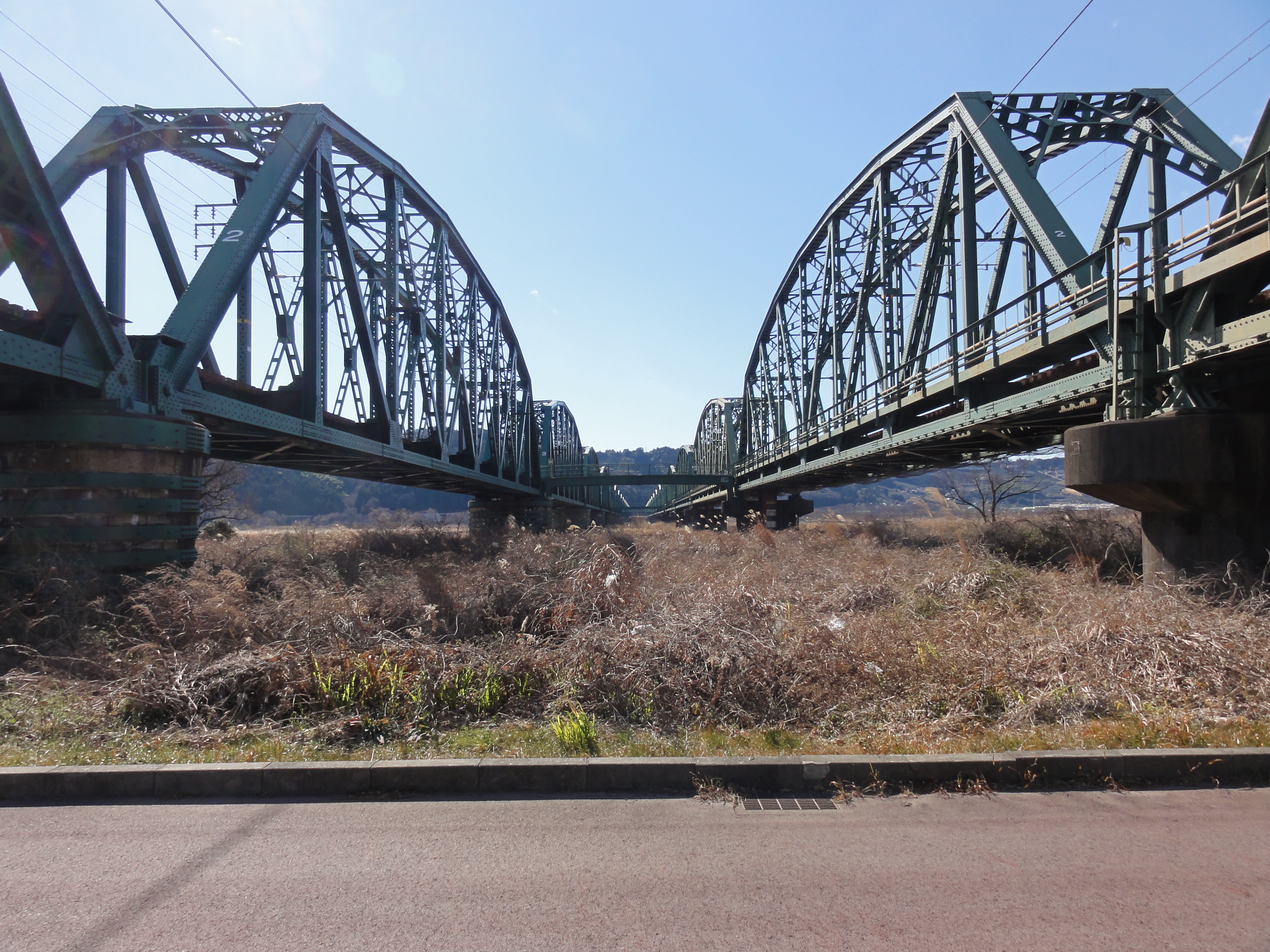 Tokaido main line:Oi-gawa bridge,shizuoka prefecture,Japan